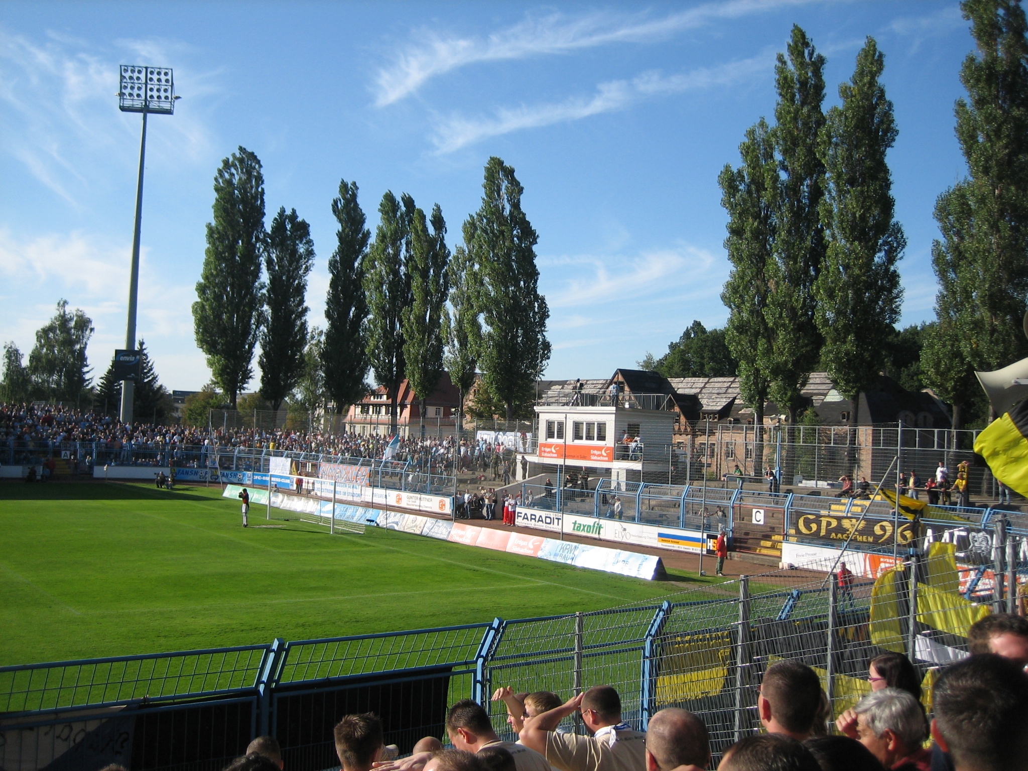 This picture shows the stand behind the goal in the Stadion an der Gellertstraße in Chemnitz, Germany. In the right hand corner is the away supporters stand. This picture was taken during the First round DFB-Cup match of Chemnitzer FC vs. Alemannia Aachen.